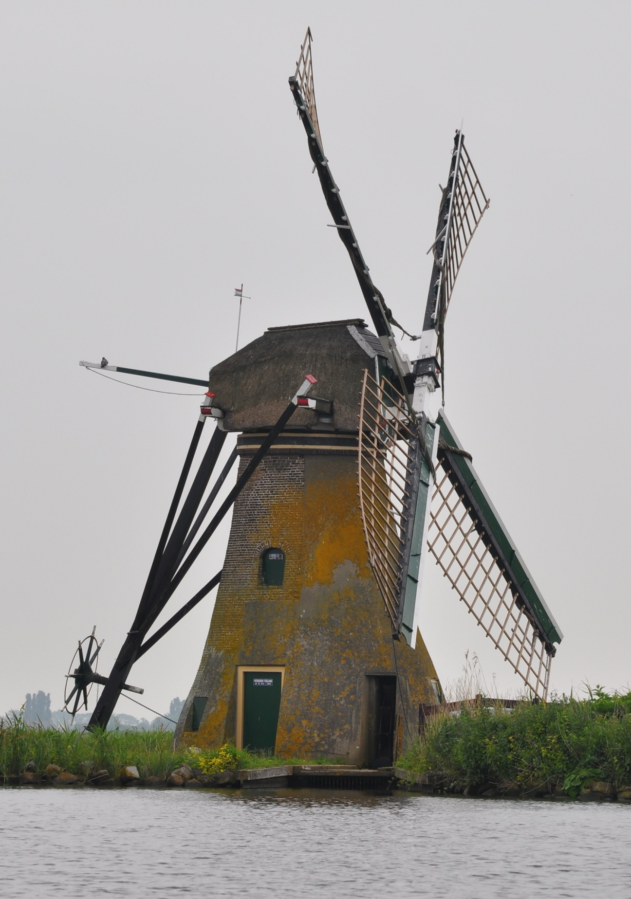 Windmill "De Kok" on the island Kogjespolder in the Kaag Lakes, Warmond, Province of South-Holland, Netherlands. This mill was built in 1809 and still functions; it is a listed building.